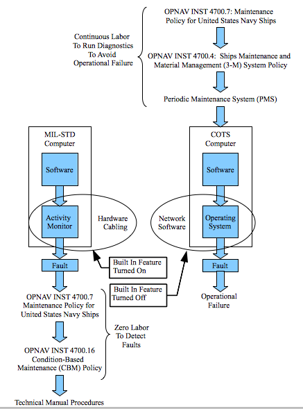 Difference between commercial maintenance and military maintenance.